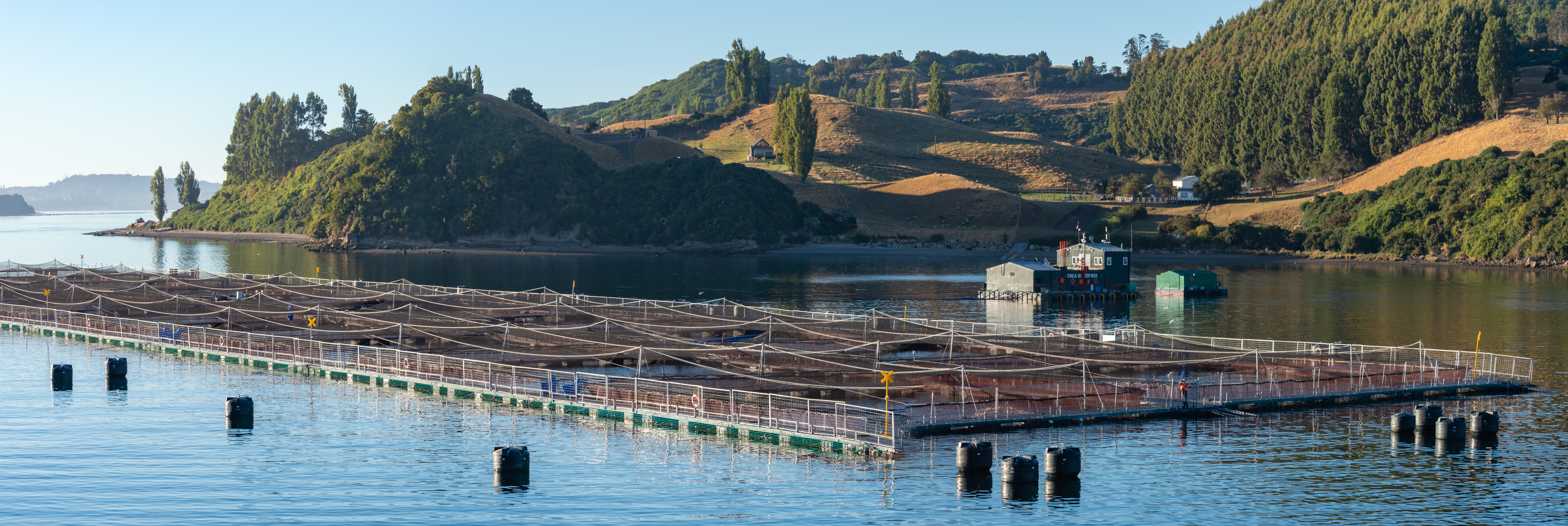 Aquaculture fish farming of salmon and mackerel in the Chilean fjords about 6 km south from Castro, on March 16, 2019. Fish pens and crew scow can be moved by tug boat.